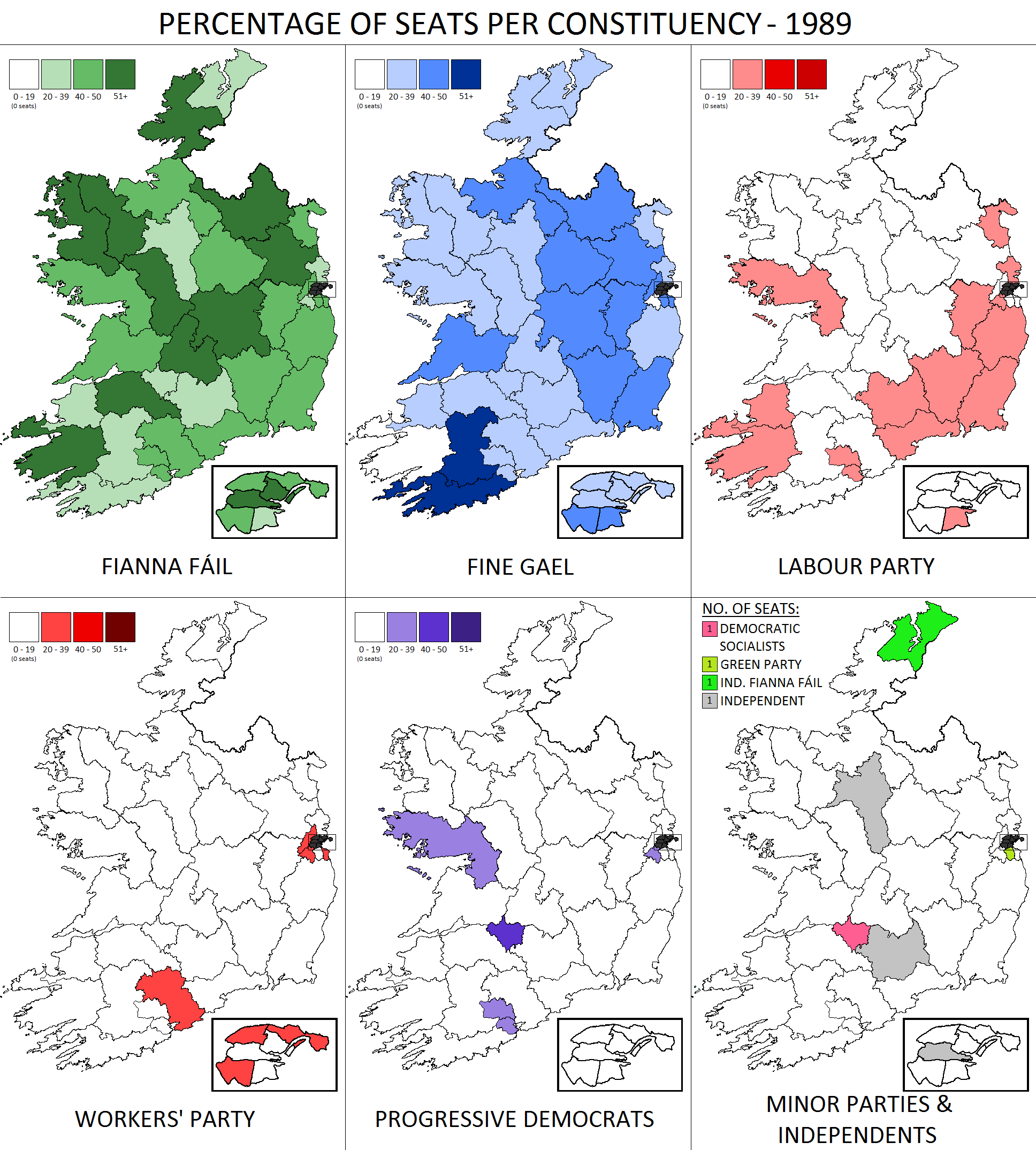 Graphical representation of the 2007 Irish general election results. Created by myself using data from Wikipedia and literary sources.